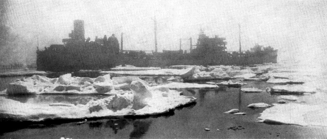 The U.S. Navy fleet oiler USS Kankakee (AO-39) waits for help from Canadian icebreaker while on duty in Arctic waters, circa 1958.